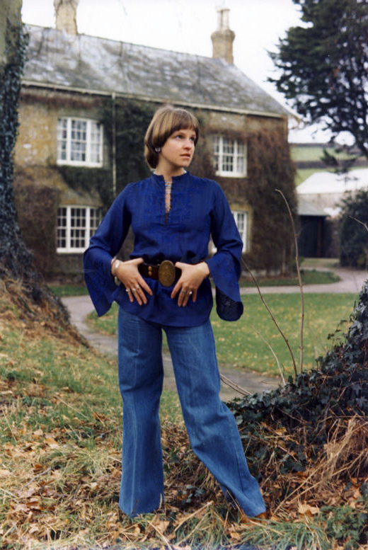 Mid 70s fashion in a Devon rural setting. Noteworthy are the belt, the medieval-style sleeves and the pageboy hairstyle.